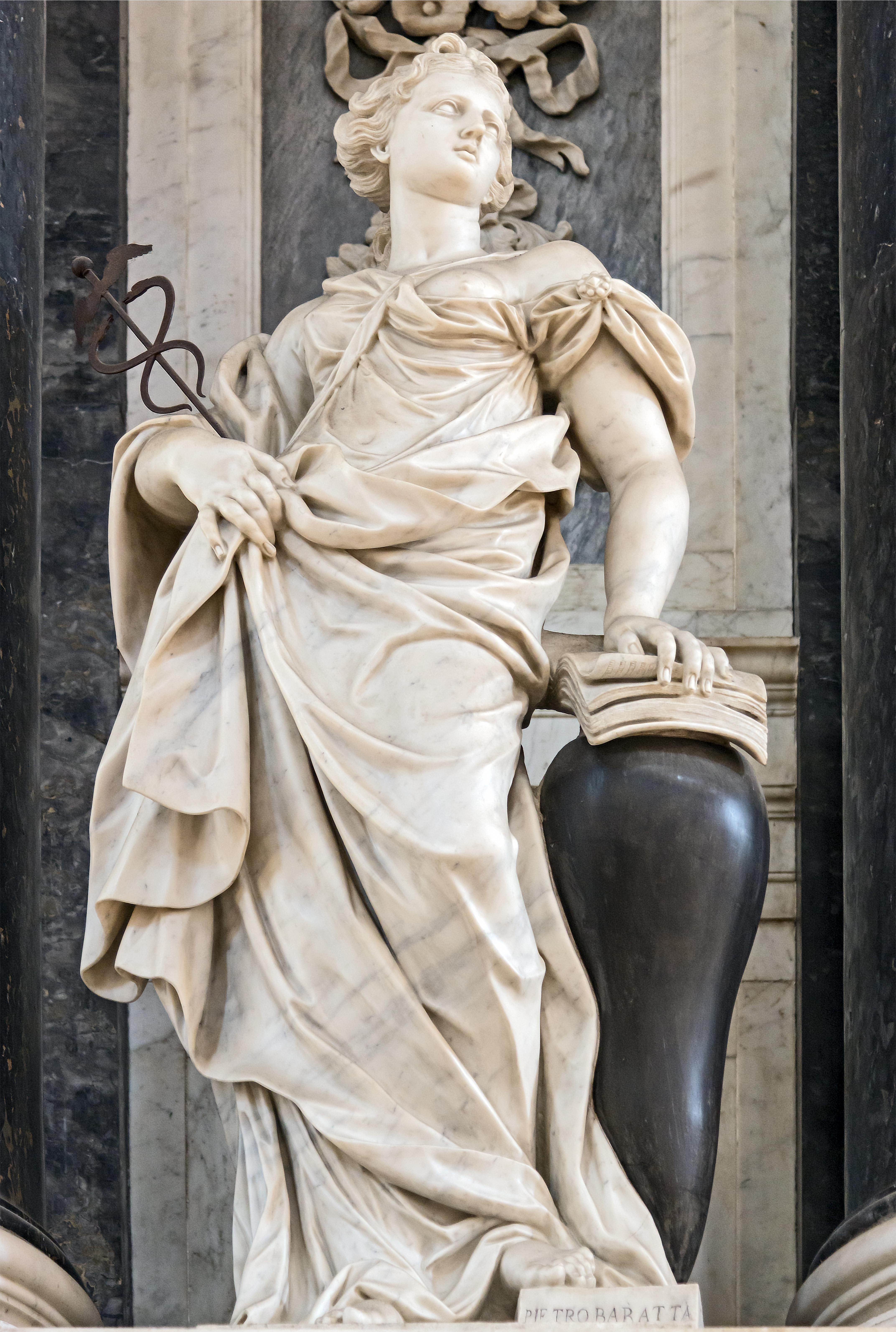 Santi Giovanni e Paolo in Venice, monument of the Valier family : The Wisdom by Pietro Baratta.